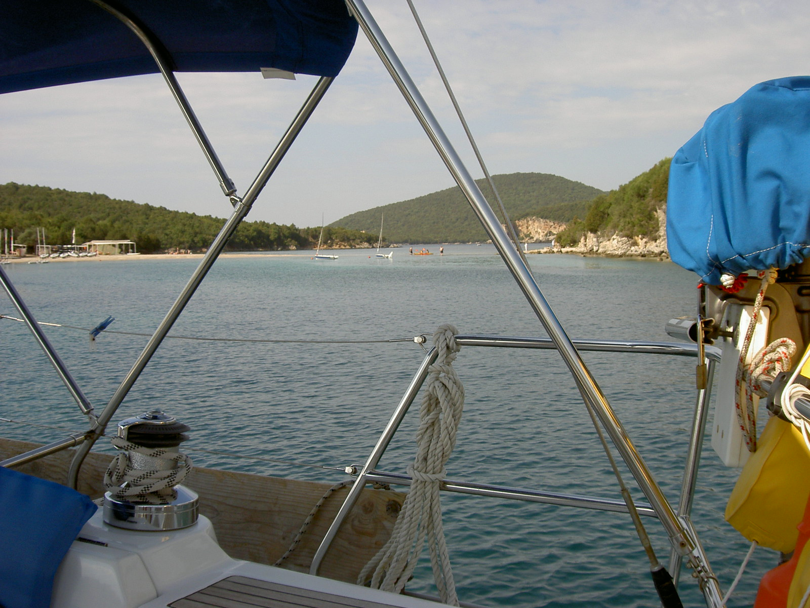 Μούρτος ΣΙΒΟΤΑ, coordinates